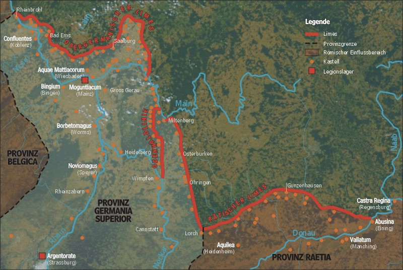 Map shows location of the Rhaetian and Upper Germanic Limes